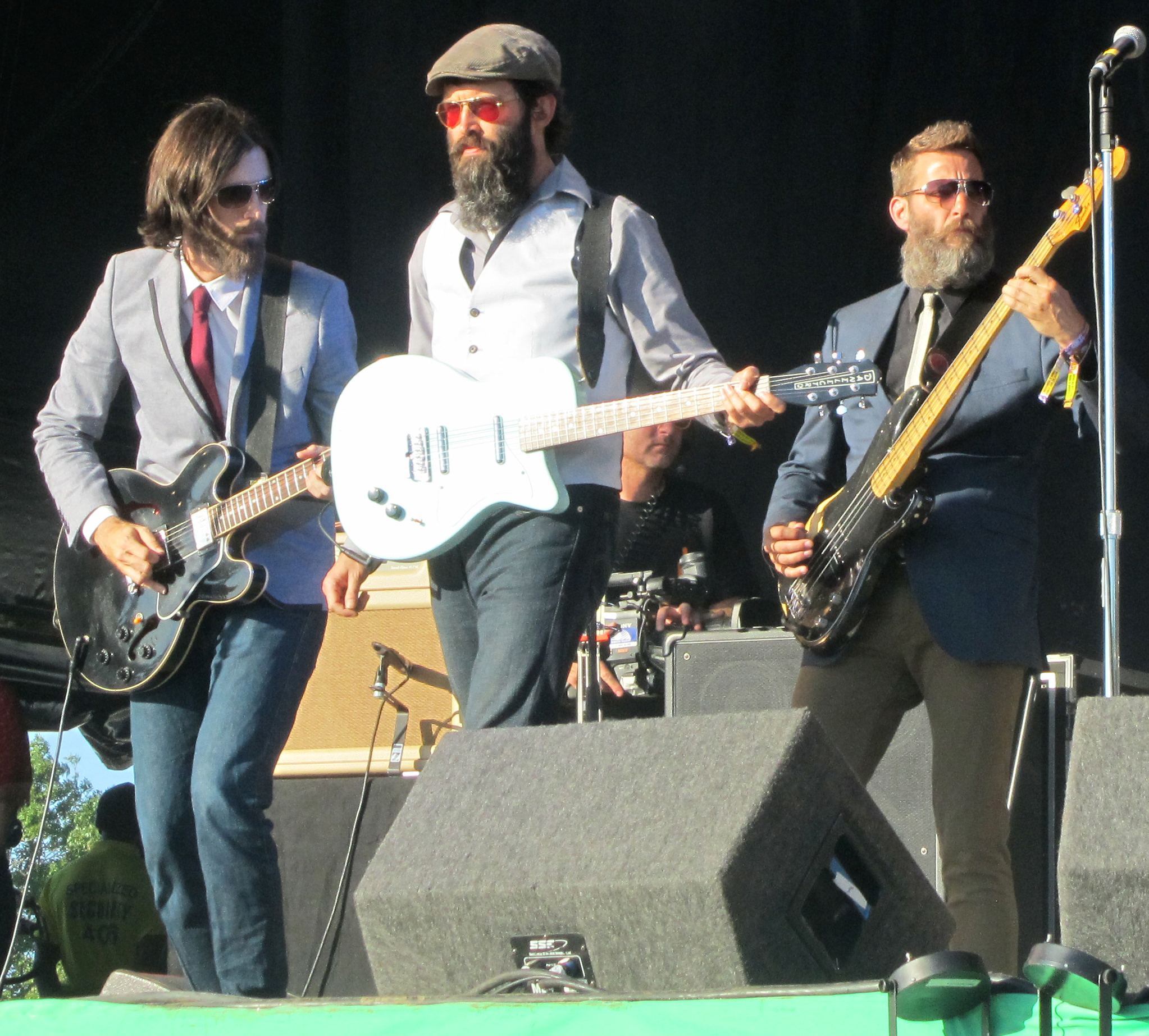 Eels performing at Glastonbury Festival 2011.